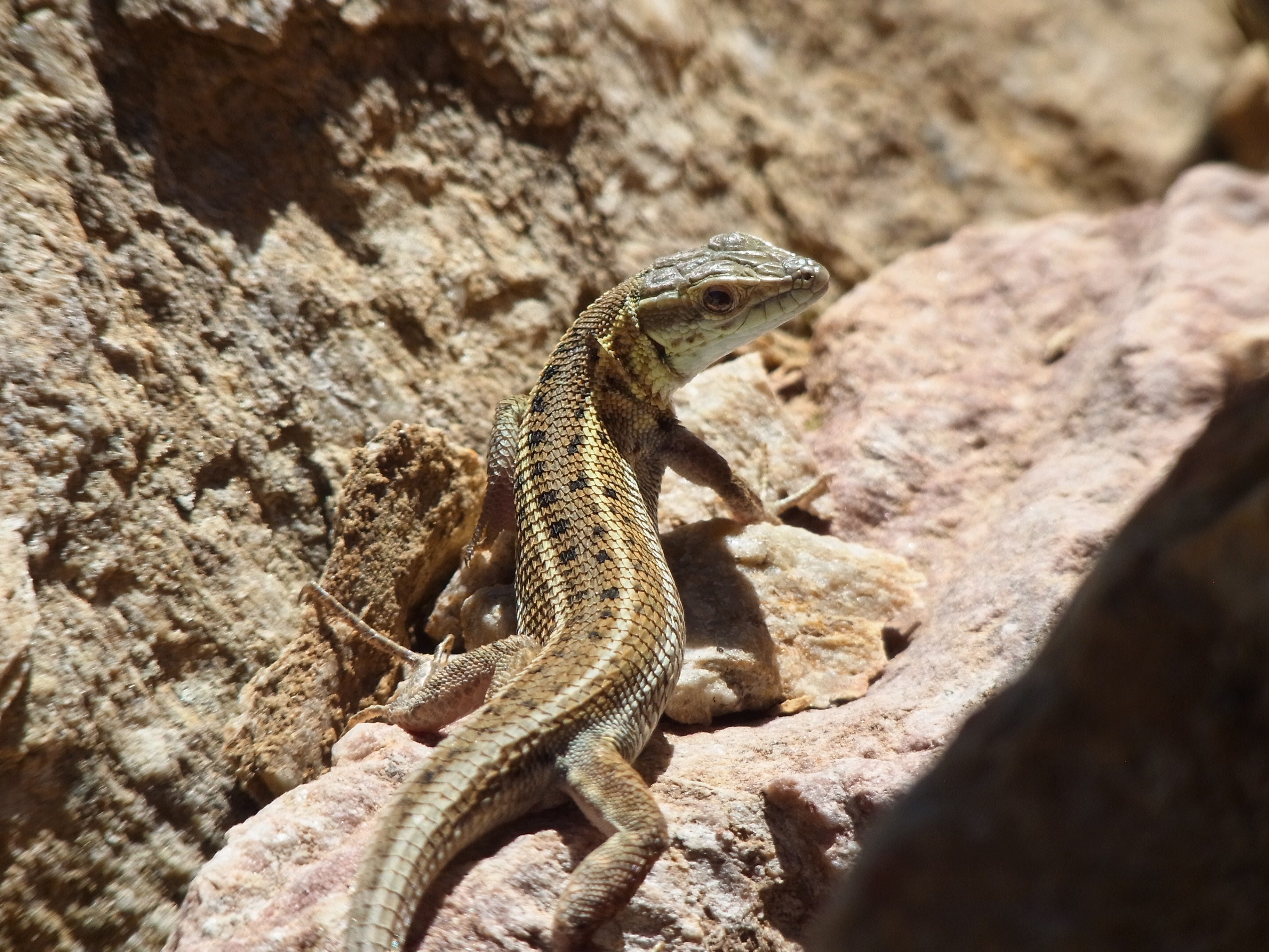 Snake-eyed Lizard (Ophisops elegans), Lákkos Kastrinón, Thasos / Greece